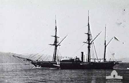 Photograph of British paddle sloop HMS Virago, probably while she was on the Australia station.